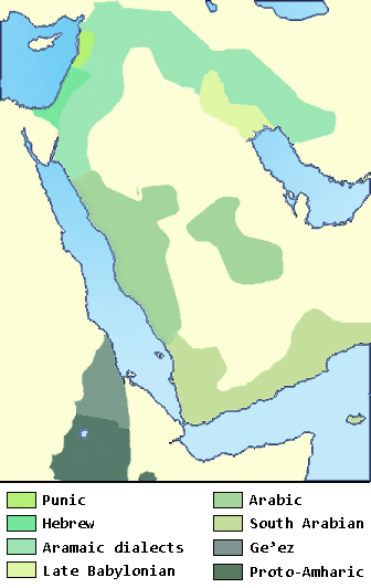 From original: Approximate distribution of Semitic language around 1 A.D. Note that "Hebrew" on the map covers a variety of Canaanite dialects.